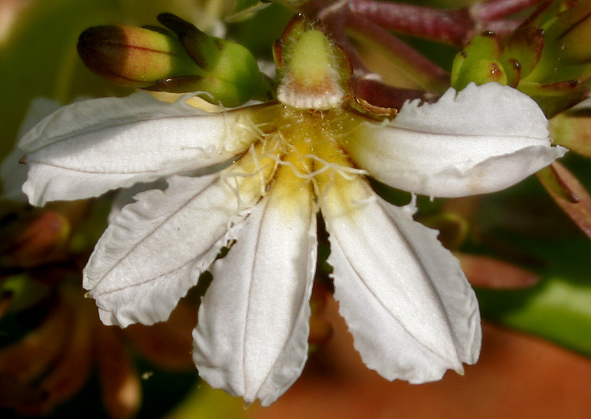 Scaevola sericea- Half Flower, malayan rice paper, beach naupaka • Marathi: Bhadrak, Bhadraksh • Tamil: vella-muttagam • Malayalam: bella-modagam, vella modagam • Kannada: bhadraak; Bhadraksha (Kerala)- in Herbal Garden, in Rangareddy district of Andhra Pradesh, India.